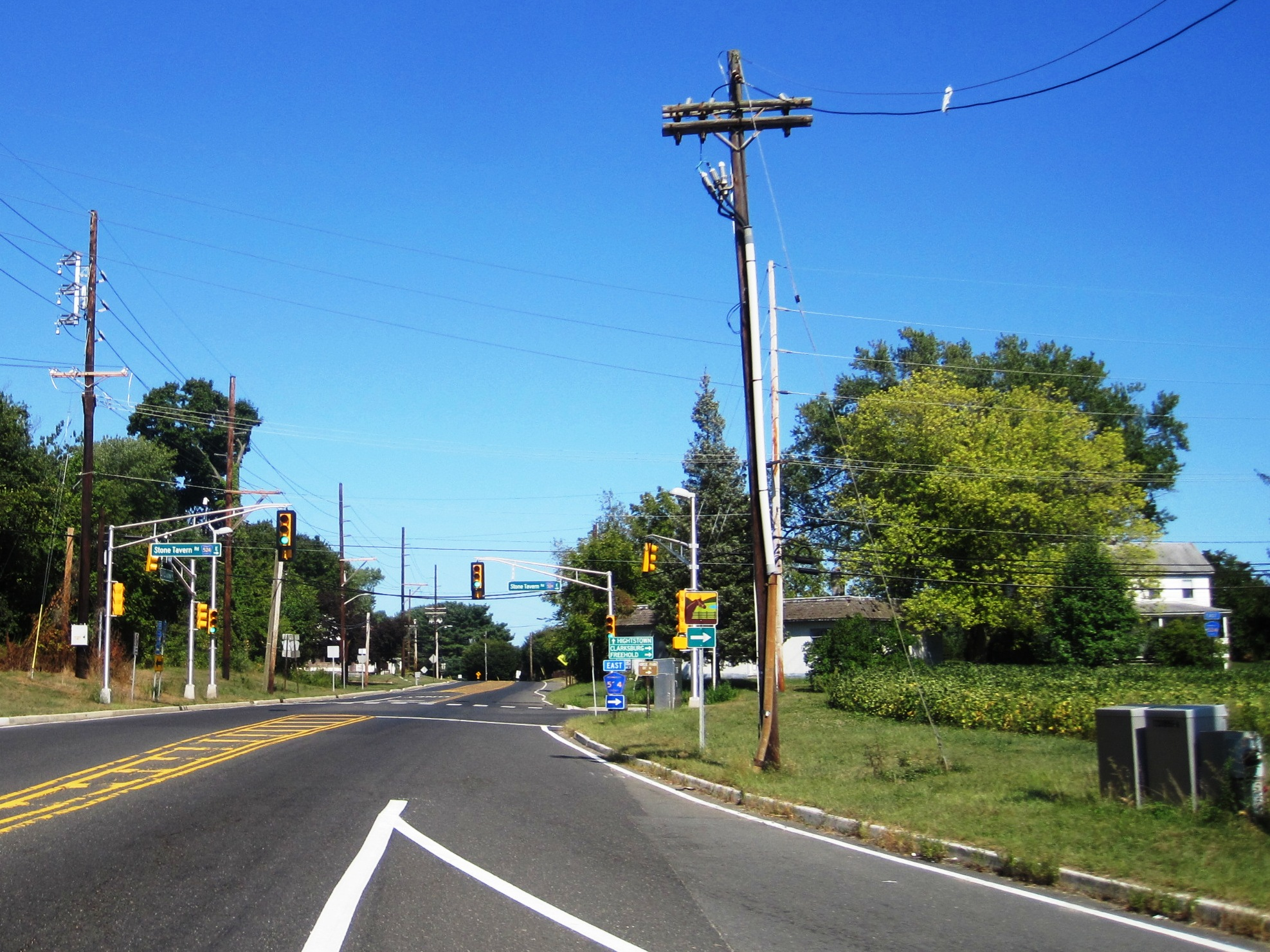 Photo of an unincorporated section of Robbinsville and Upper Freehold townships, New Jersey known as New Canton. The photo was taken on northbound Old York Road (County Routes 539/524) at its Interstate 195 interchange.